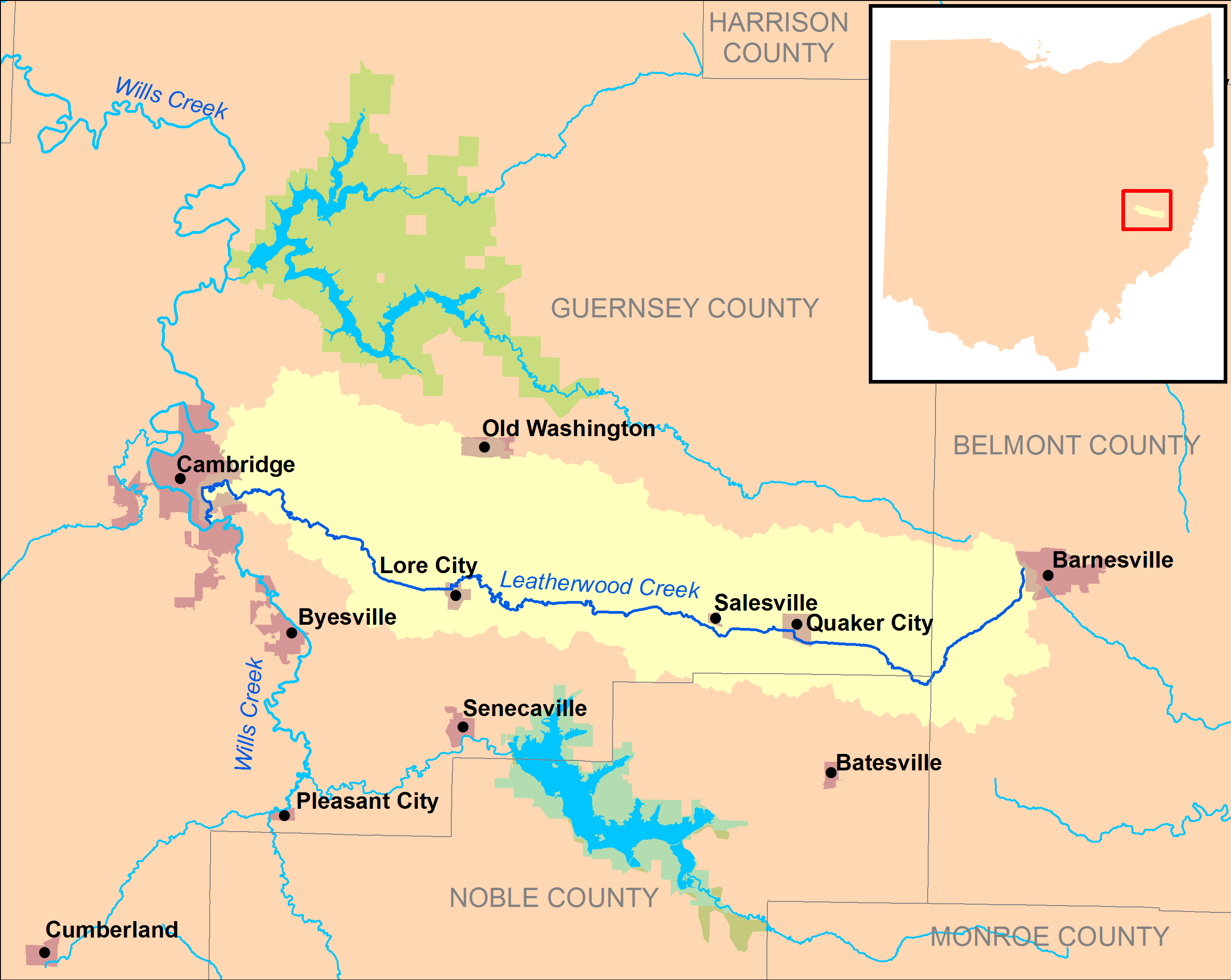 A map of Leatherwood Creek and its watershed (USGS HUC-12 codes 050400050301 and 050400050302) in Belmont, Noble, and Guernsey counties in Ohio.